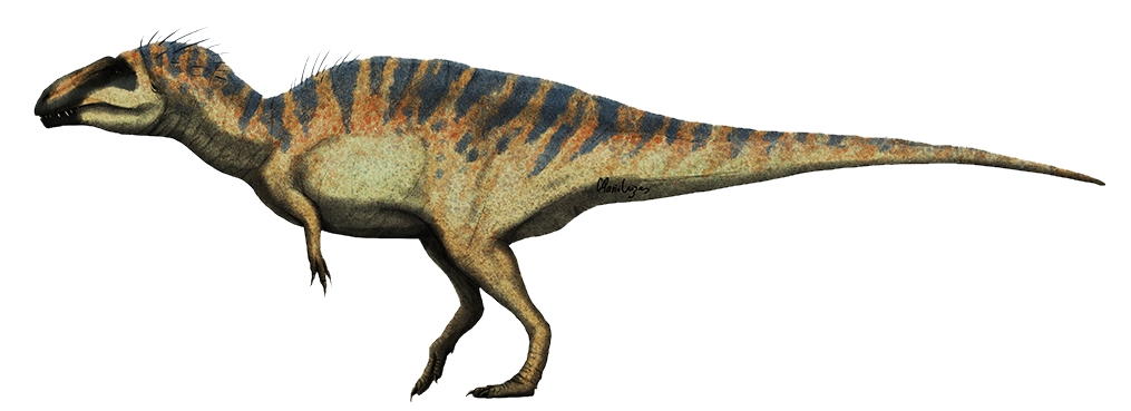 Restoration of Acrocanthosaurus. Mario Lanzas 2018